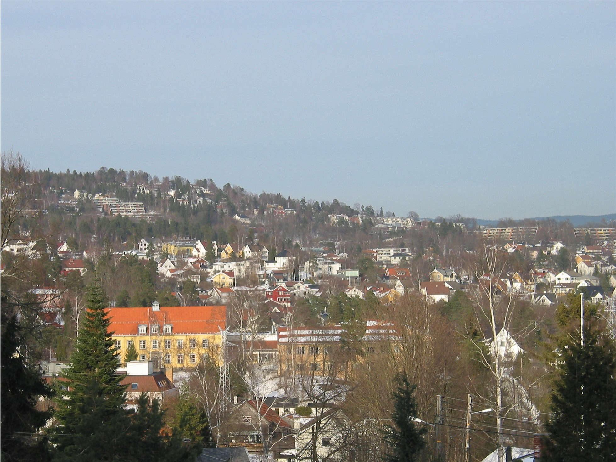 View of the areas Jar (foreground) and Lilleaker / Øraker (background), seen from the hill Malurtåsen at Stabekk. The large, yellow building is Jar school. The hill in the back is Ullernåsen